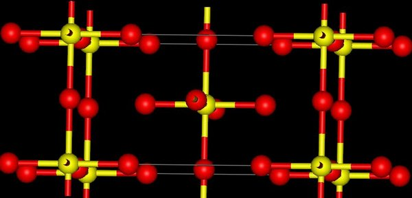 SnF4 structure Journal = NATURWISSENSCHAFTEN, Year = 1962, Volume = 49, Page = 254–255, Title = Die Kristallstruktur von SnF4 und PbF4, Authors = Hoppe R., Dähne W.